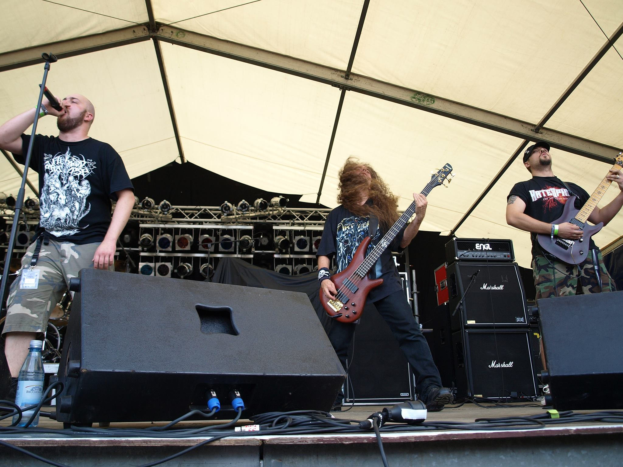 Epicedium live at Eisenwahn-Festival